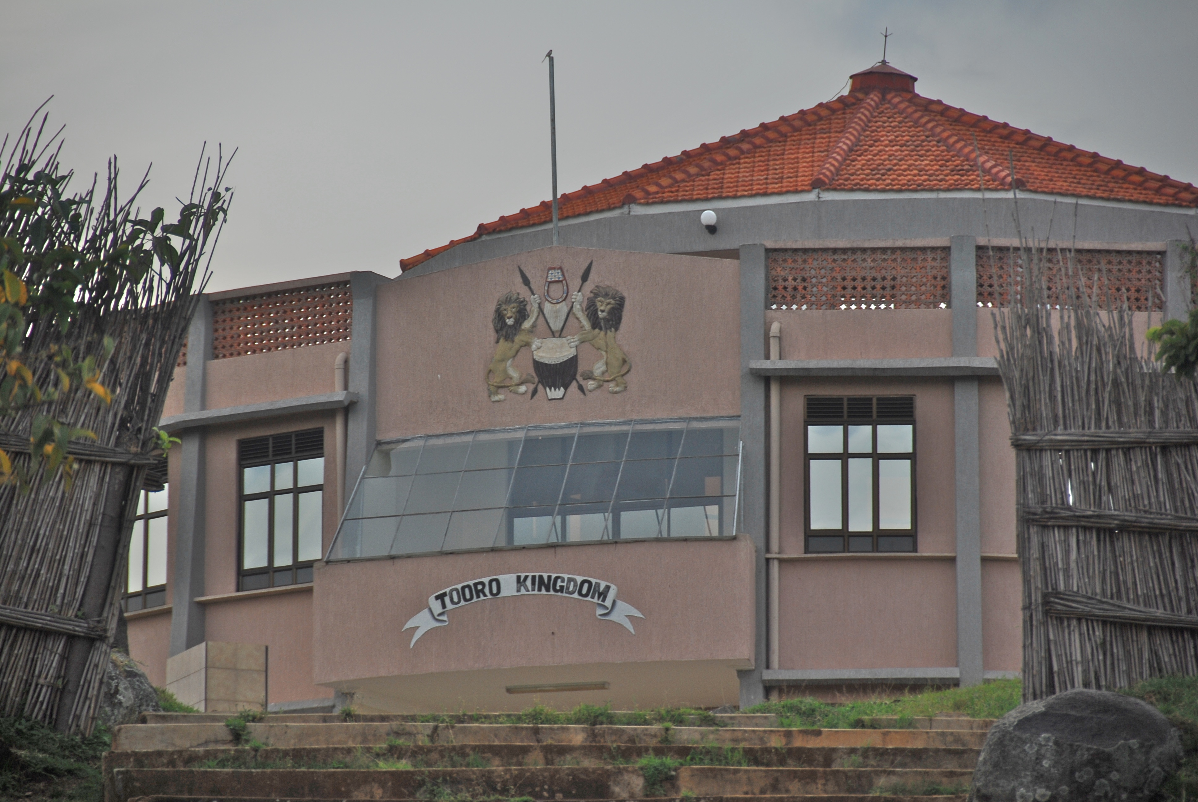 Palace of the king of the Tooro Kingdom